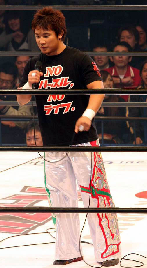 A Japanese professional wrestler Yujiro Kushida at the Hustle 30, in the Yoyogi National Gymnasium on April 13, 2008.